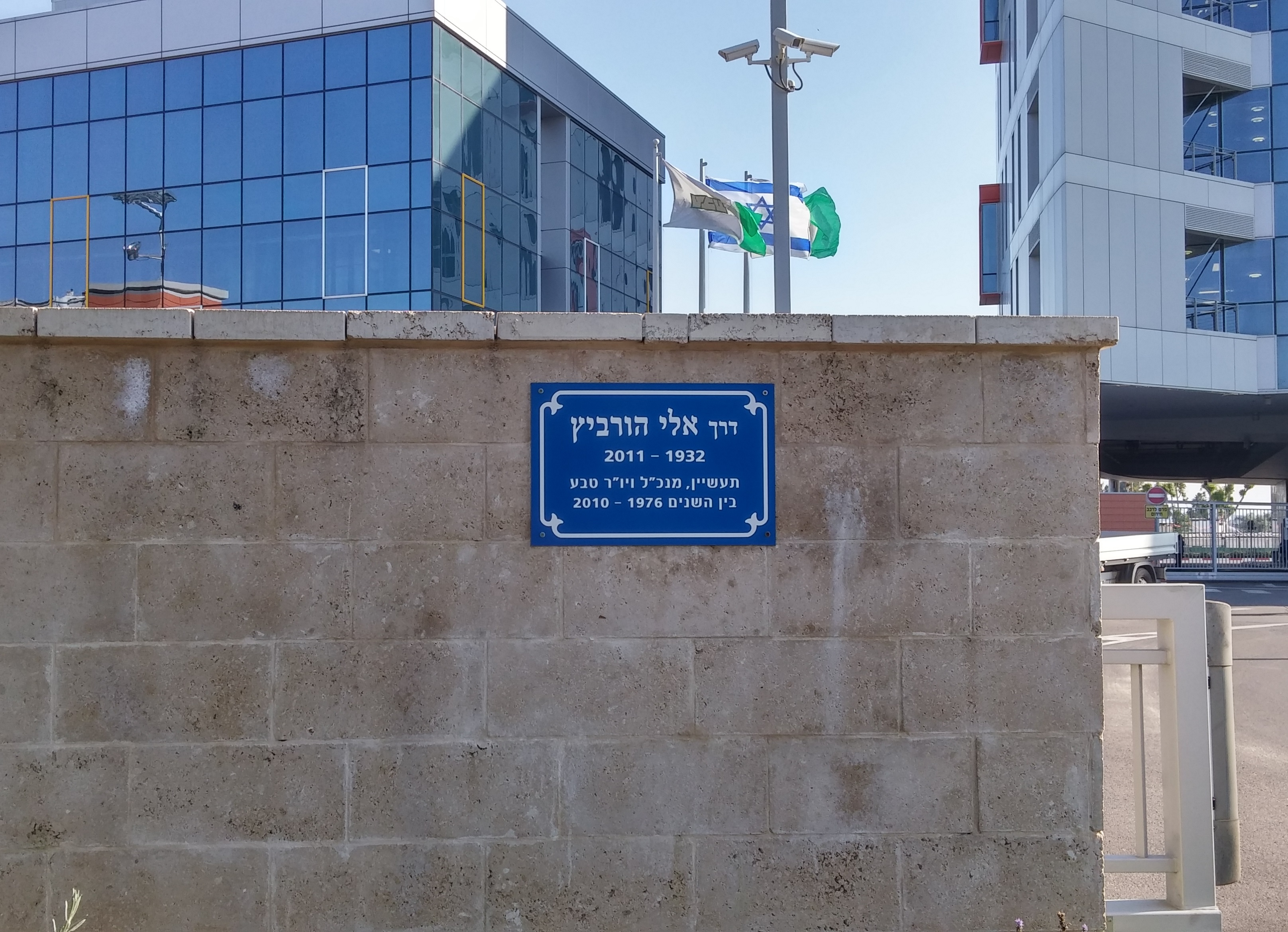 Eli Hurvitz road, Kfar Sava